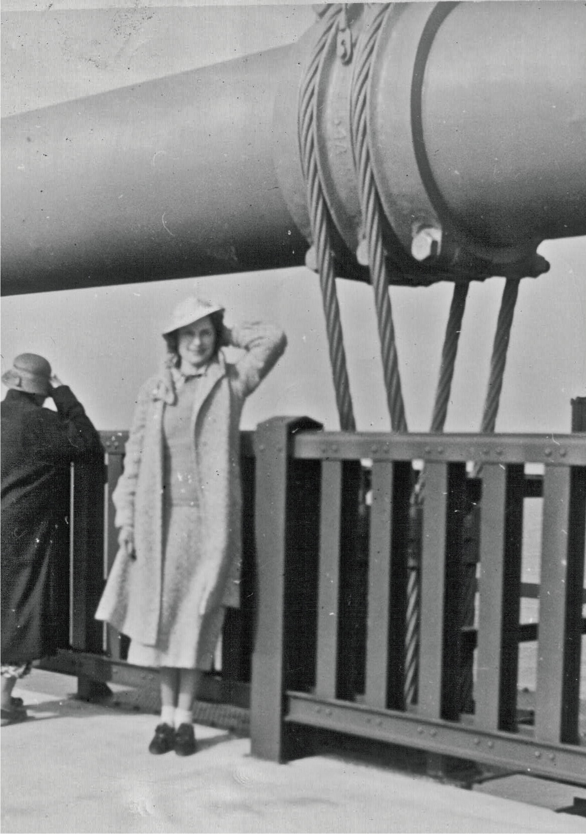 Mrs. Annell Euler at the opening day of the Golden Gate Bridge, on 26 May 1937. With the Golden Gate Bridge railing and wrapped cables element.